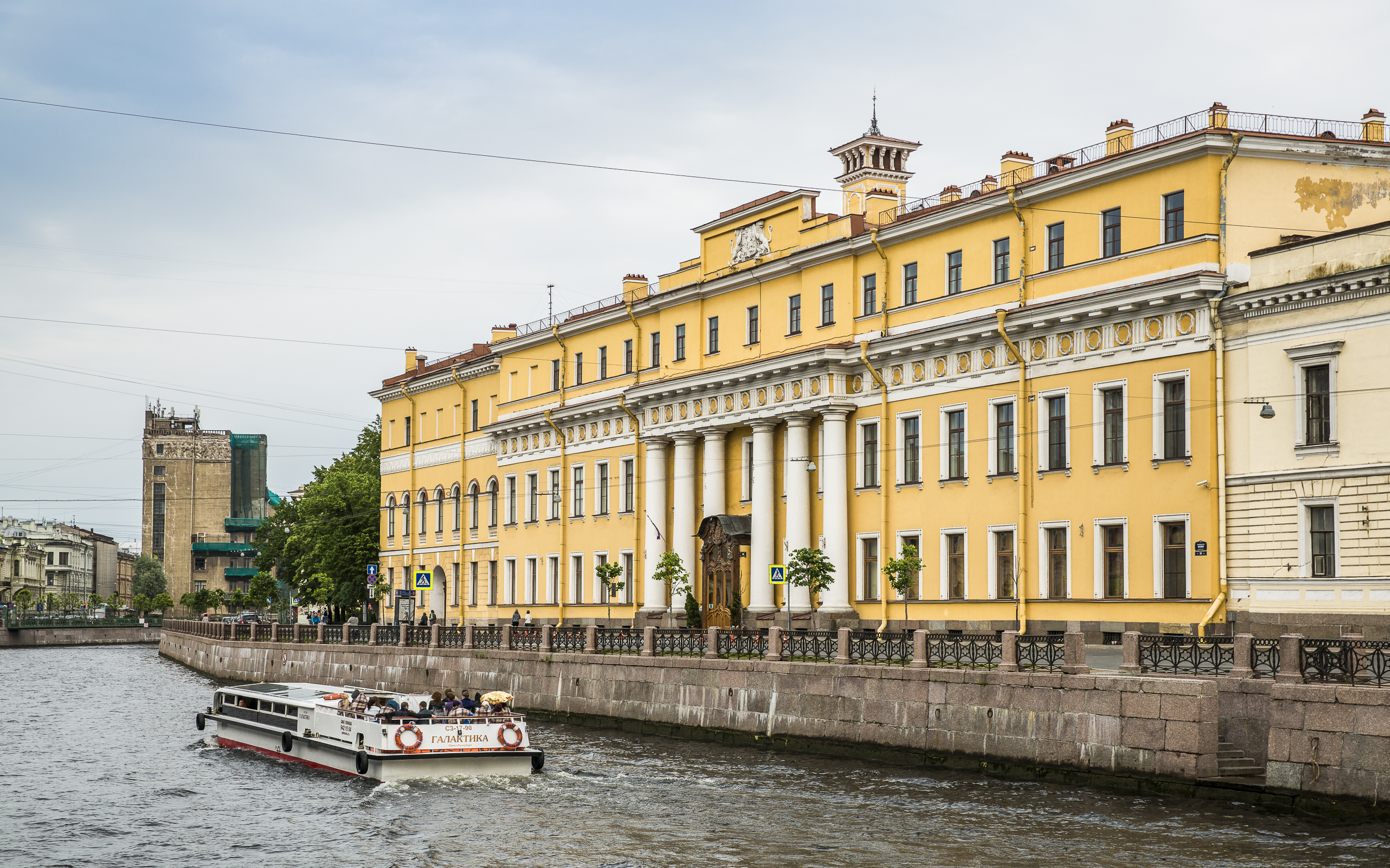 One of two surviving St. Petersburg residences of the monumentally wealthy Yusupov family, the Yusupov Palace on the Moika River is perhaps most famous as the scene of the assassination of Grigory Rasputin, and is one of the few aristocratic homes in the city to have retained many of its original interiors.